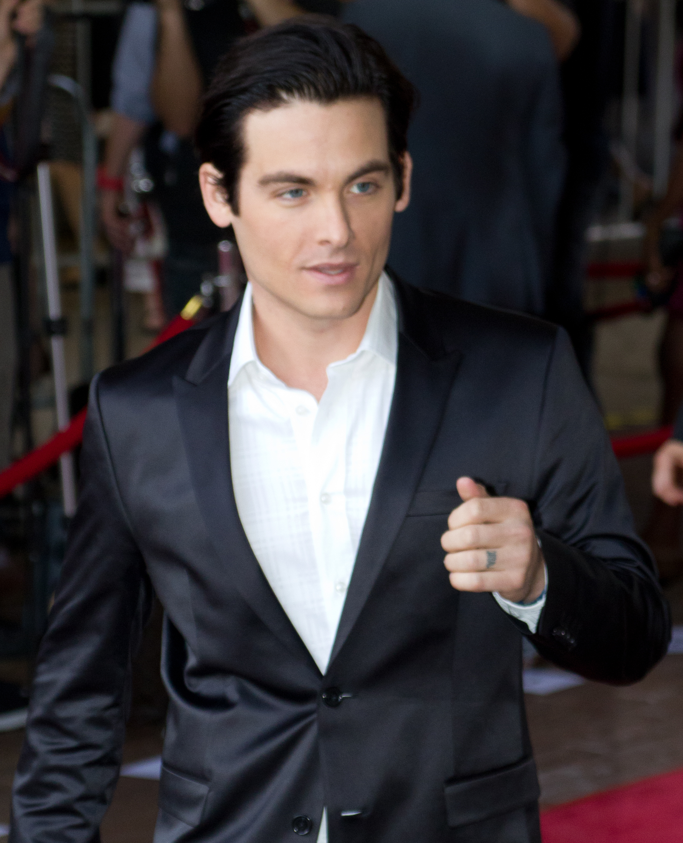 Kevin Zegers at the Toronto International Film Festival 2012.